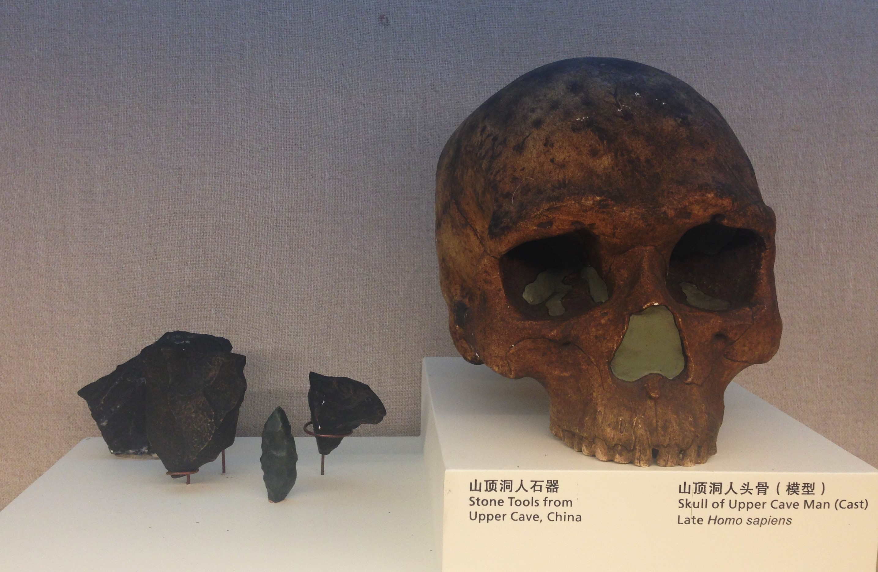 Casts of skull and stone tools of Upper Cave Man, found in China. The casts are owned by Shanghai Natural History Museum.